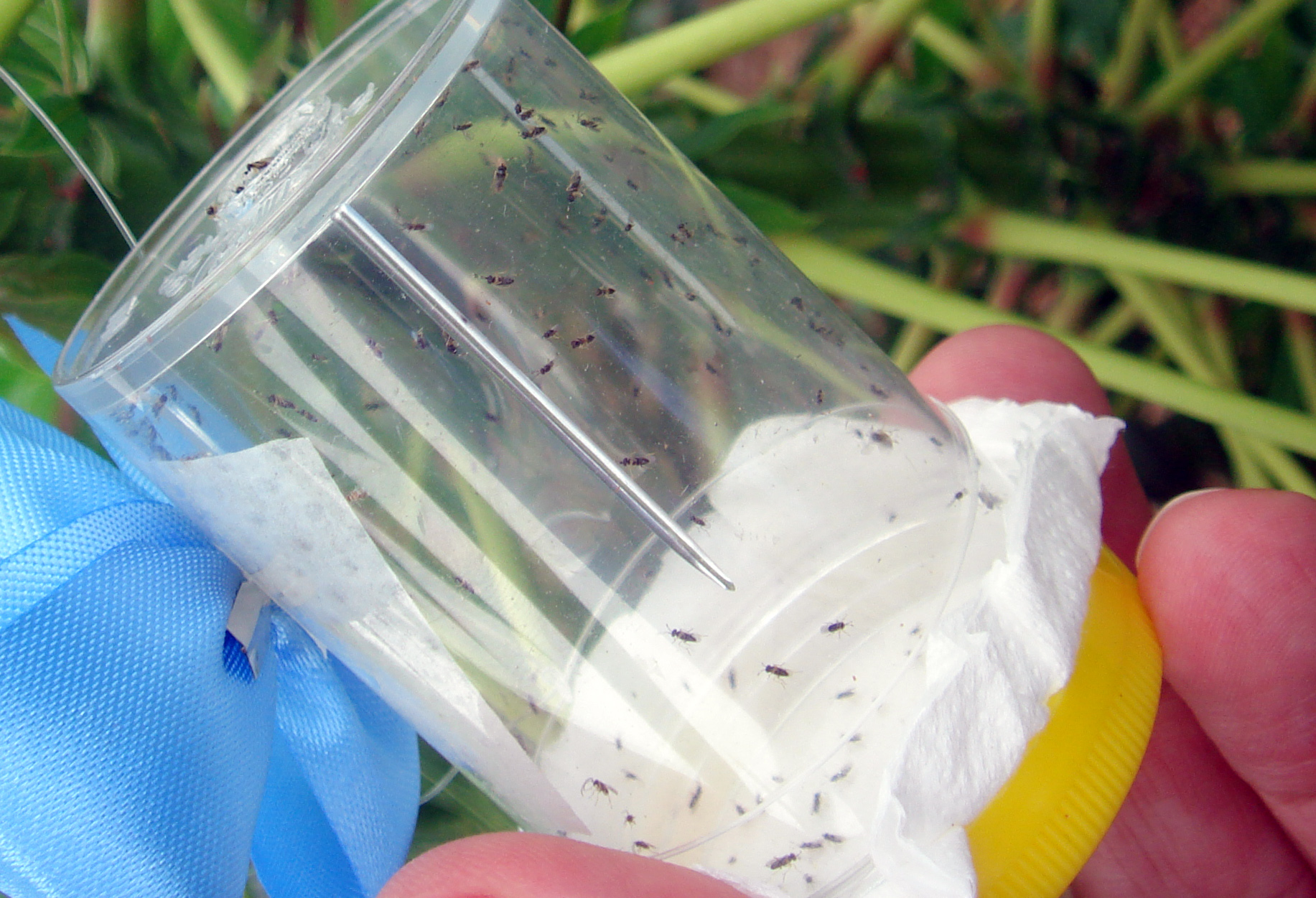 Pic by Rod Lefroy (CIAT). Please credit accordingly. A vial containing the tiny parasitic wasp Anagyrus lopezi, at a release ceremony organised and hosted by the Thai Department of Agriculture in the country's northeastern Khon Kaen province (17 July 2010). It is hoped that the wasp will help tackle the devastating cassava mealybug outbreaks in the country. Please credit accordingly and let us know when you use a CIAT pic.